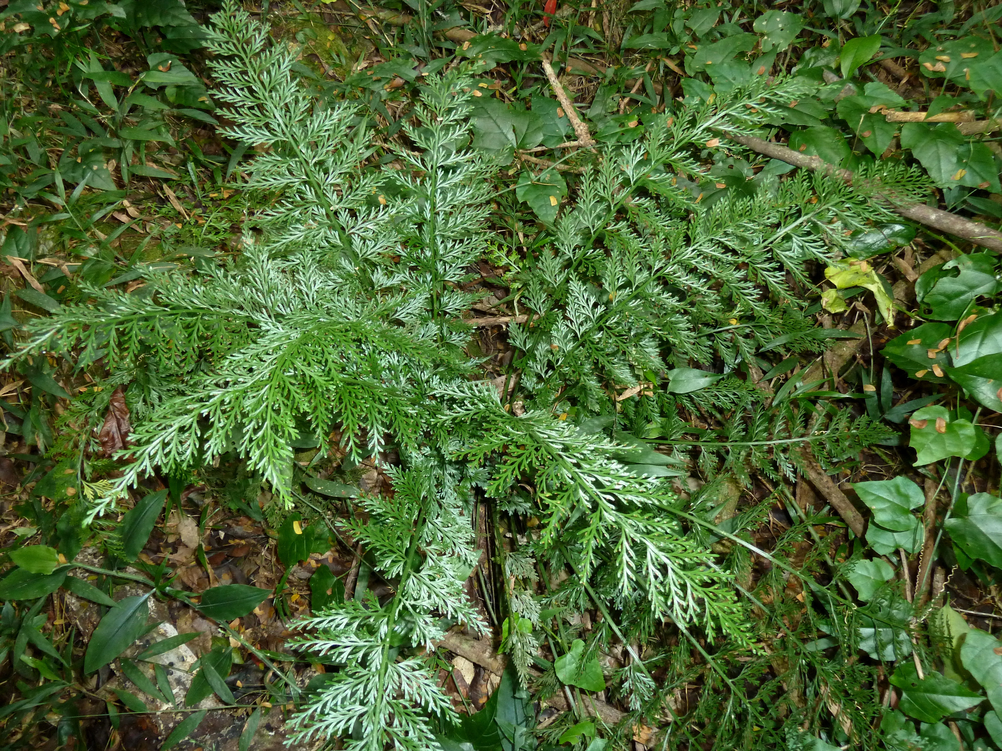 Carrot fern in Krantzkloof Nature Reserve, KwaZulu-Natal